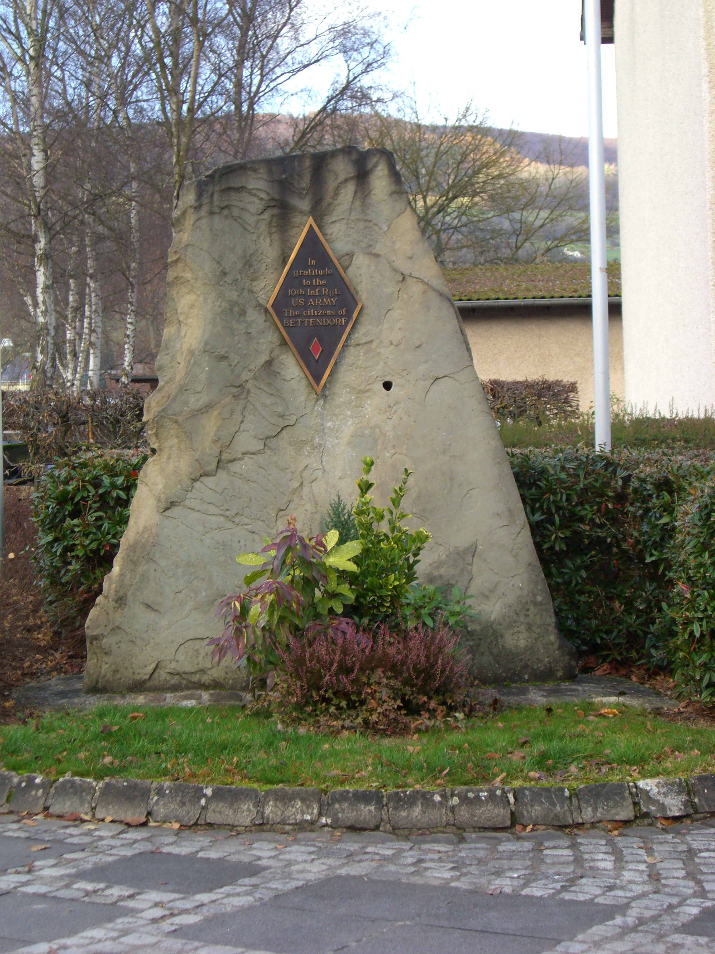 Monument for the liberation of Bettendorf by the 10th Inf. Rgt.